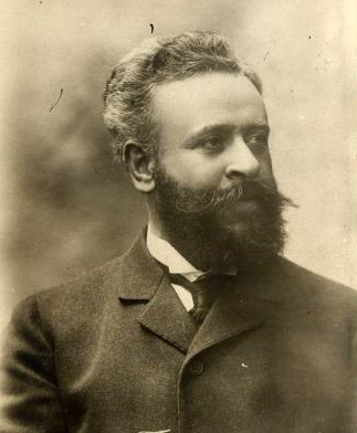 Photograph of Alberto Franchetti, (18 September 1860 – 4 August 1942), an Italian opera composer.